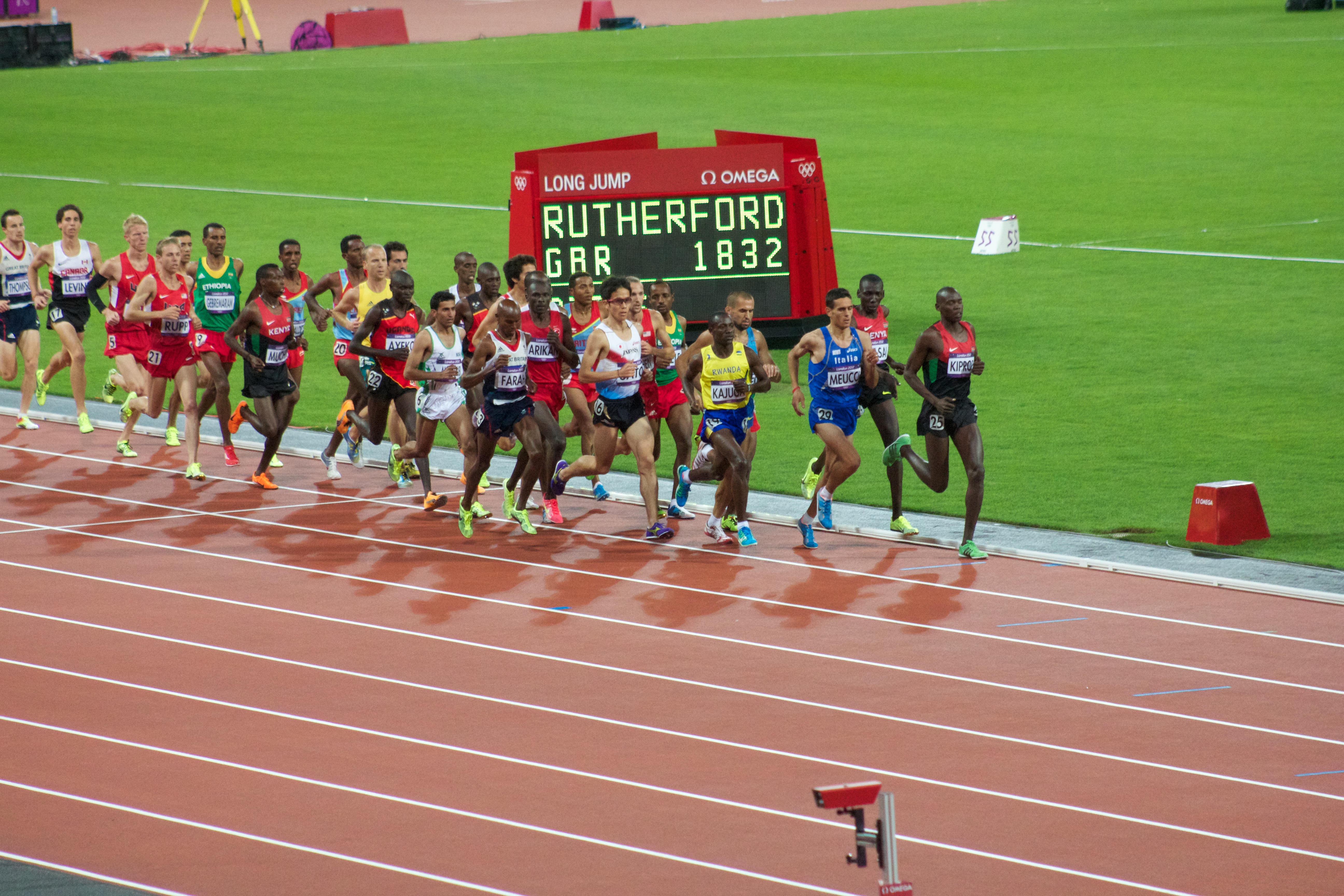 Men's 10000m Final - Christopher Thompson, Cameron Levins, Matthew Tegenkamp, Galen Rupp, Gebregziabher Gebremariam, Bedan Karoki Muchiri, Thomas Ayeko, Moukheld Al-Outaibi, Mo Farah, Polat Kemboi Arikan, Yuki Sato, Robert Kajuga, Daniele Meucci, Moses Ndiema Masai, Wilson Kiprop